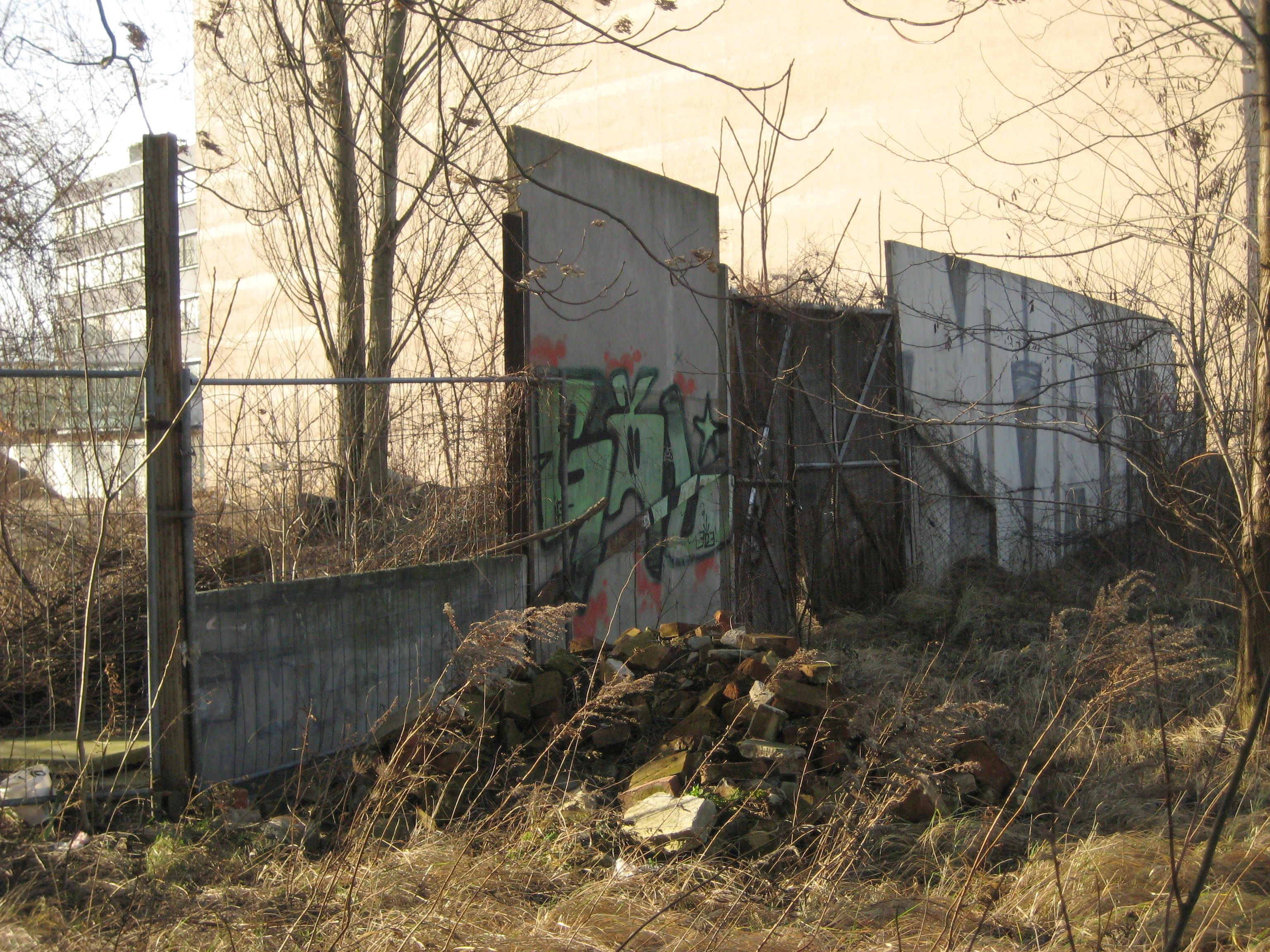 remnant of border fortifications at the Berlin Wall; rear wall (Hinterlandmauer) with gate leading to the former “death strip” (right) at Chausseestraße 91.